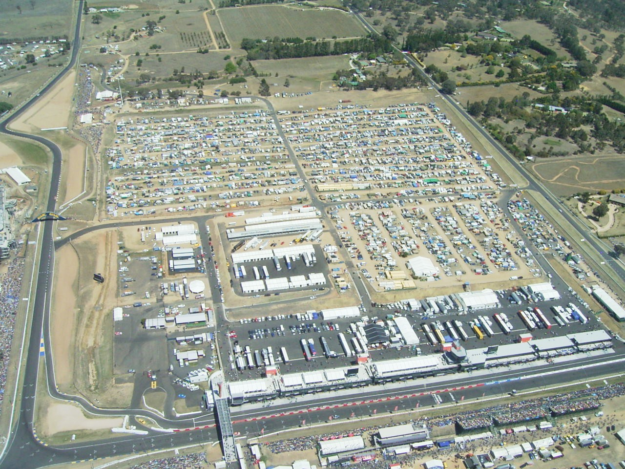 Aerial view of Bathurst racetrack, including the end of conrod straight (left), the start/finish line and pit areas (bottom), and mountain straight (right) all of which surround the main paddock.